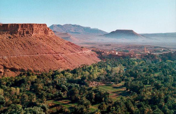 photo of the draa near zagora made by: sahara aventures-zagora - maroc It is licensed under creative commons by world66